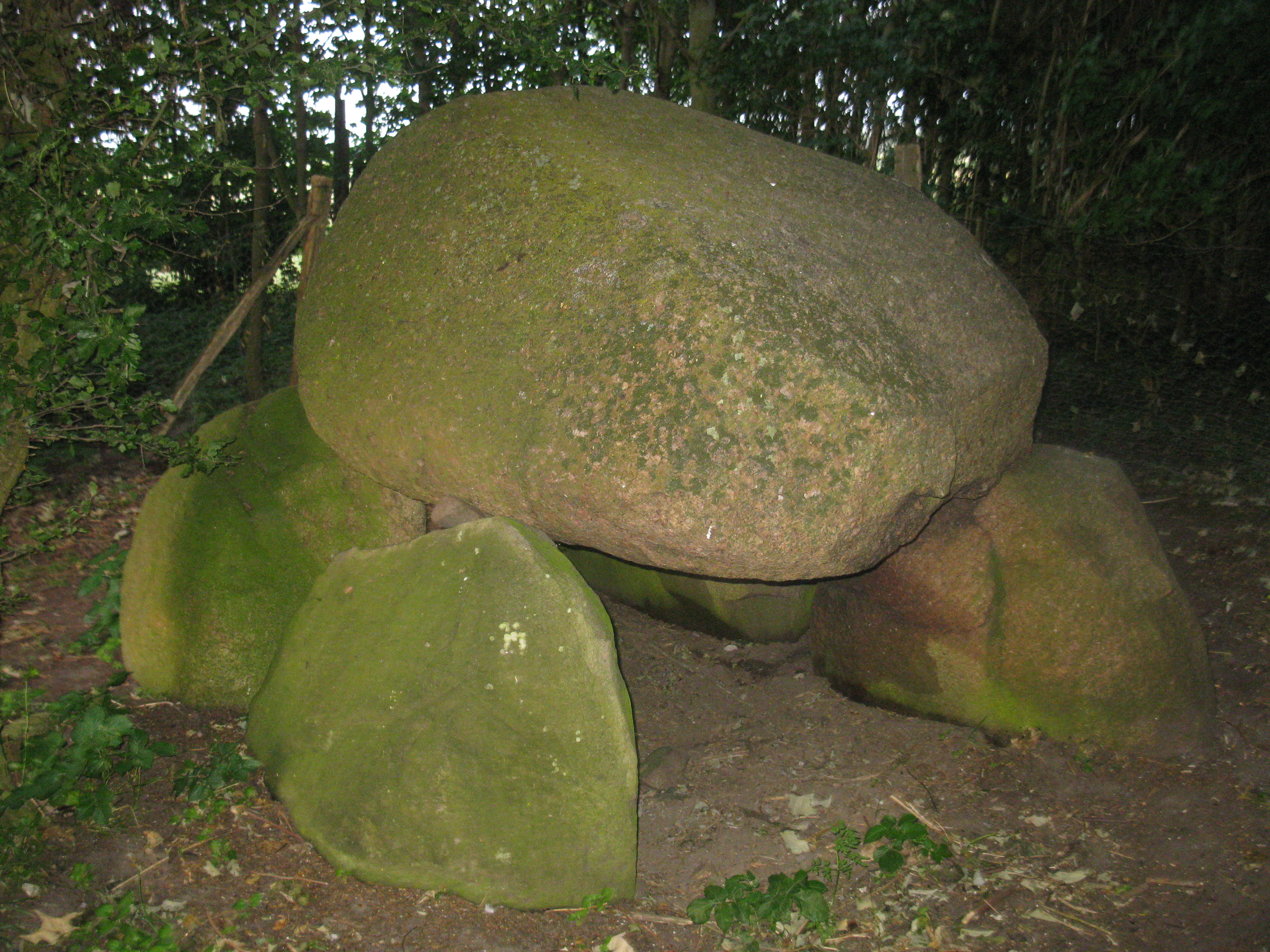 Stone Age Grave "Alversteen", Fehmarn